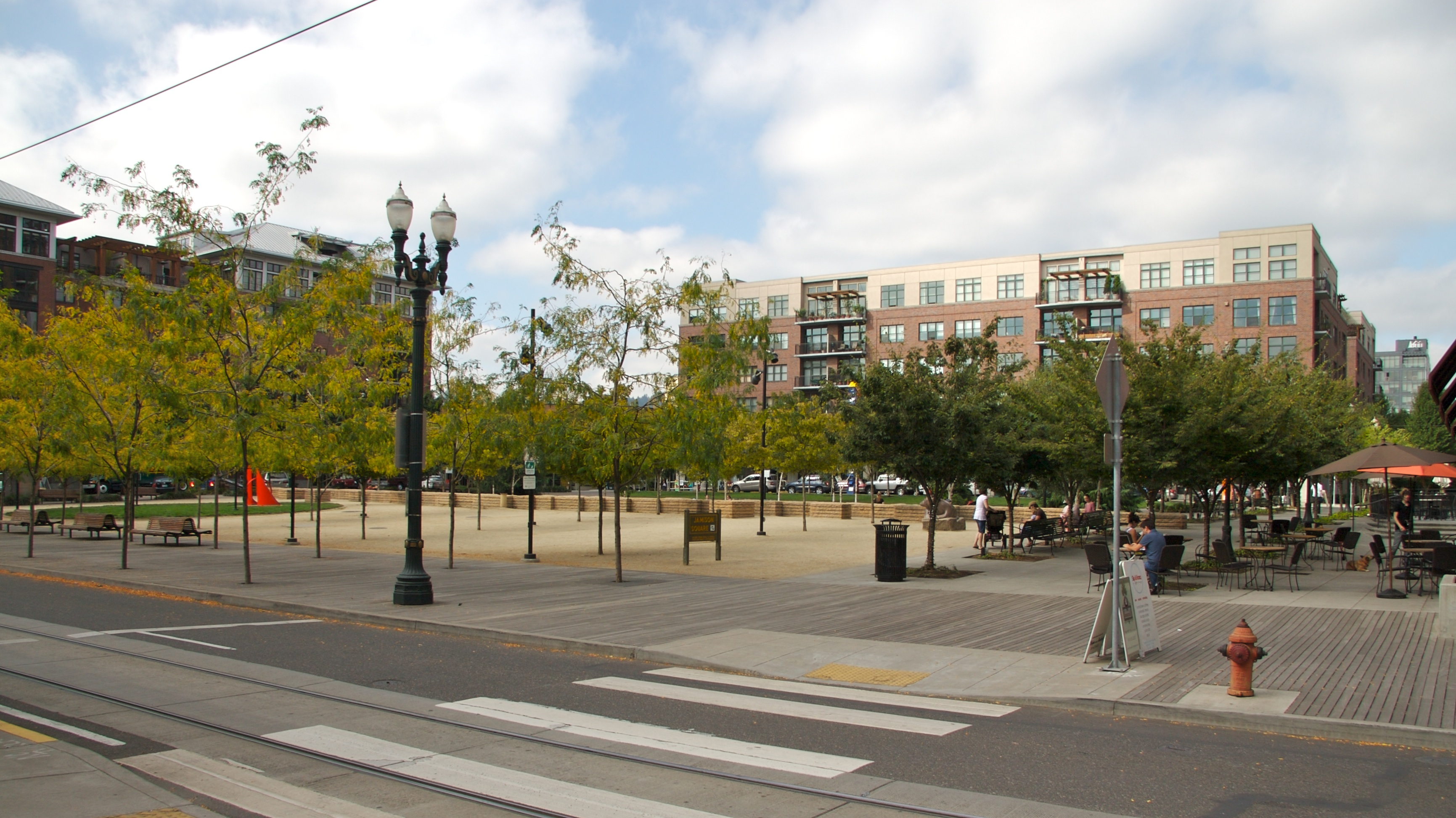 Jamison Square, Pearl District, Portland, Oregon in 2007